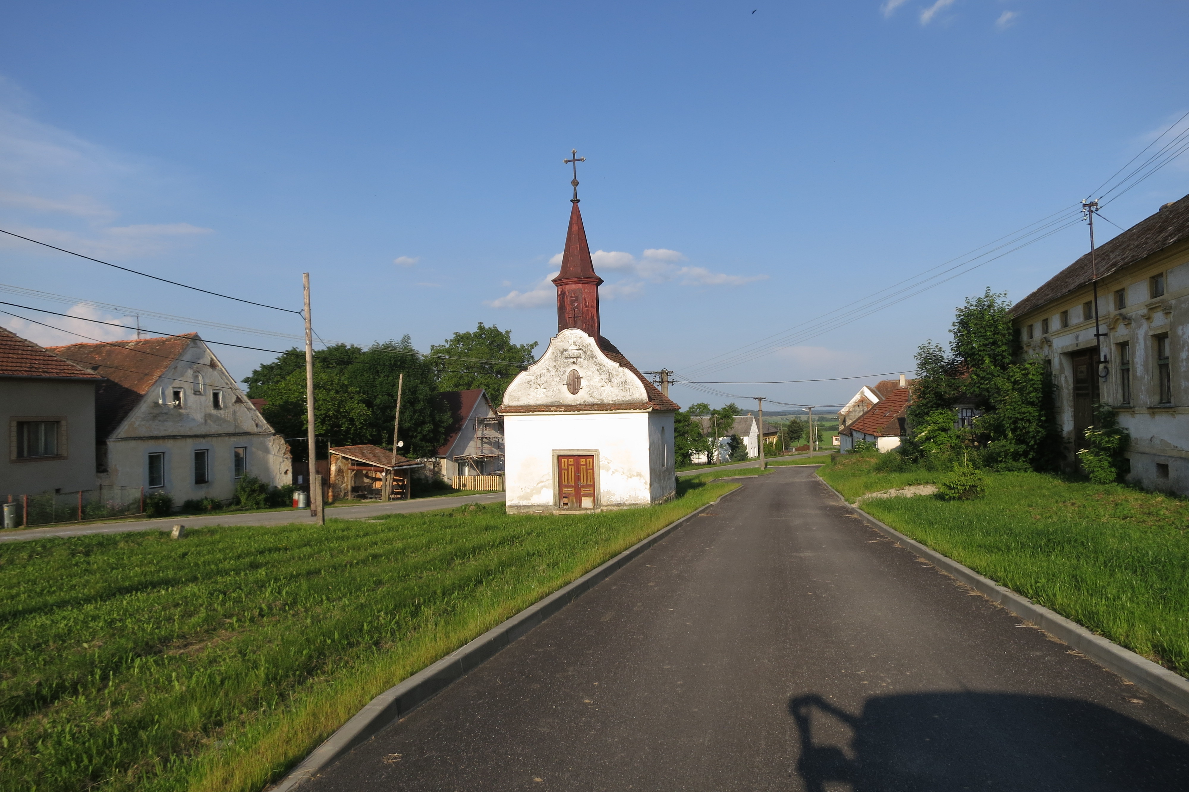 Center of Chvalkovice, Dešná, Jindřichův Hradec District.